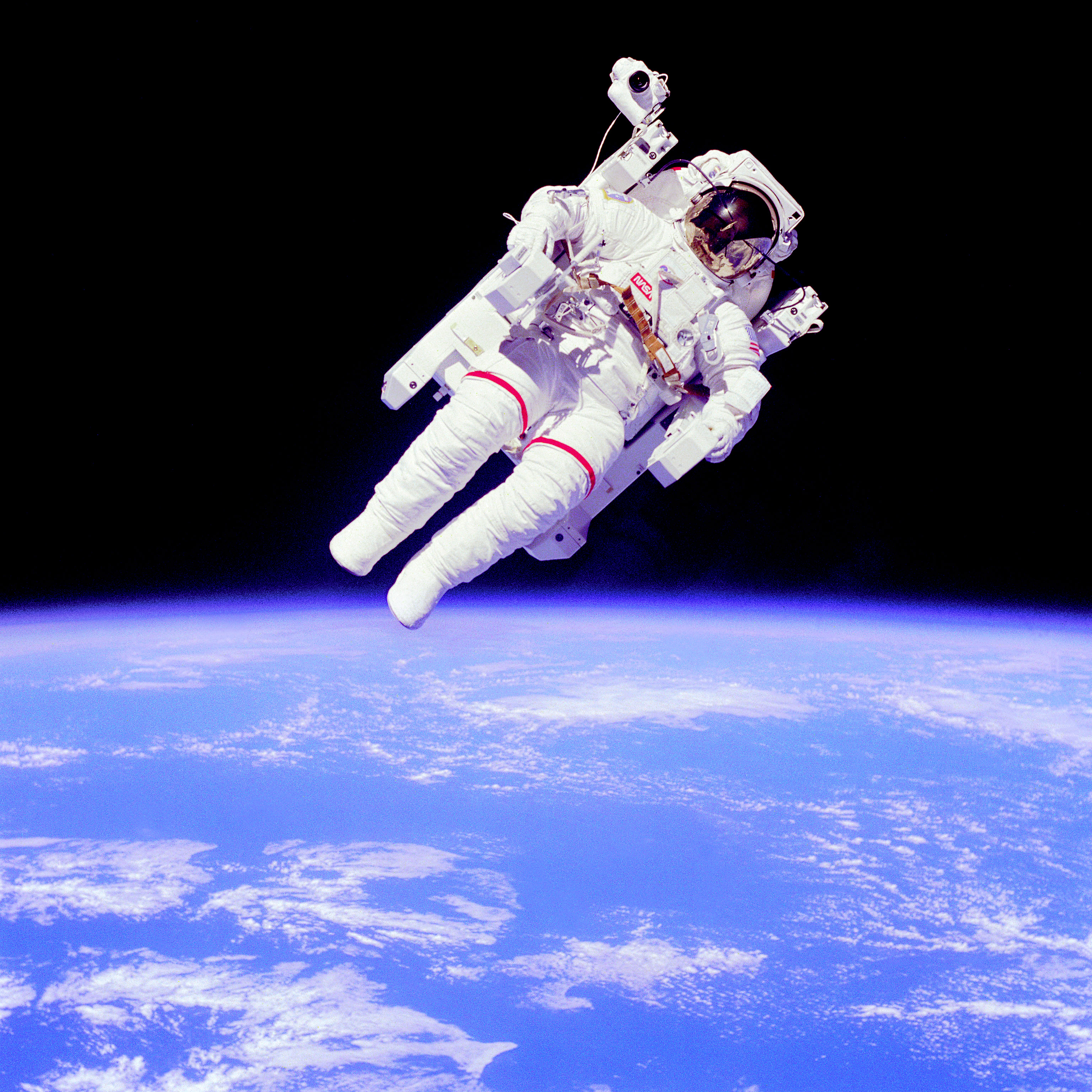 NASA Photo ID: S84-27017 Program: Shuttle Mission: STS-41-B Date Taken: February 11, 1984 Film Type: 70mm Title: Views of the extravehicular activity during STS 41-B Description: Astronaut Bruce McCandless II, mission specialist, participates in an extra-vehicular activity (EVA), a few meters away from the cabin of the shuttle Challenger. He is using a nitrogen-propelled hand-controlled manned maneuvering unit (MMU). He is performing this EVA without being tethered to the shuttle. The picture shows a cloud view of the earth in the background. From Edited by User:Fir0002